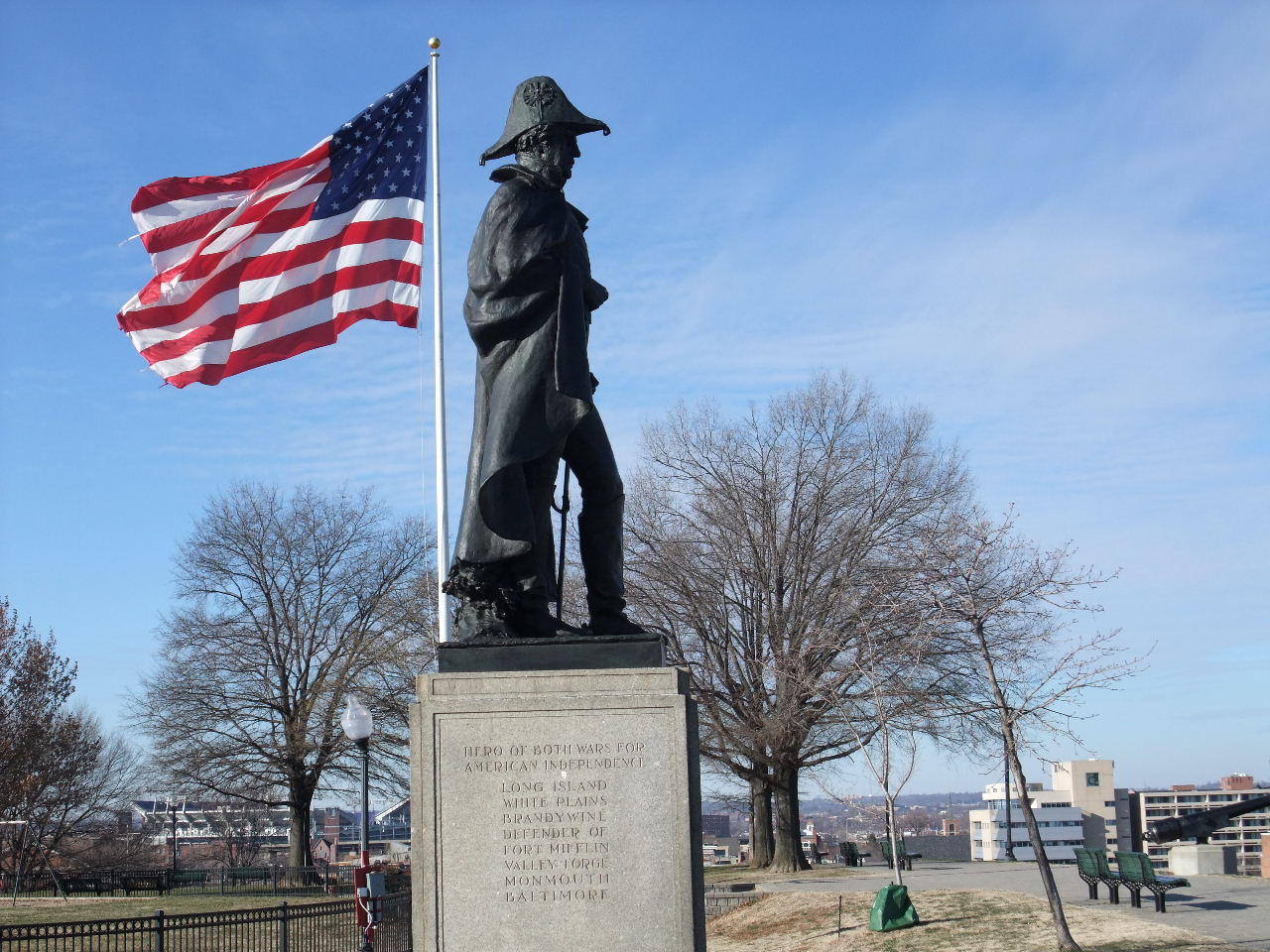 Statue of Major General Samuel Smith with the American flag in back blowing in the harbor wind. Federal Hill in Baltimore, Maryland